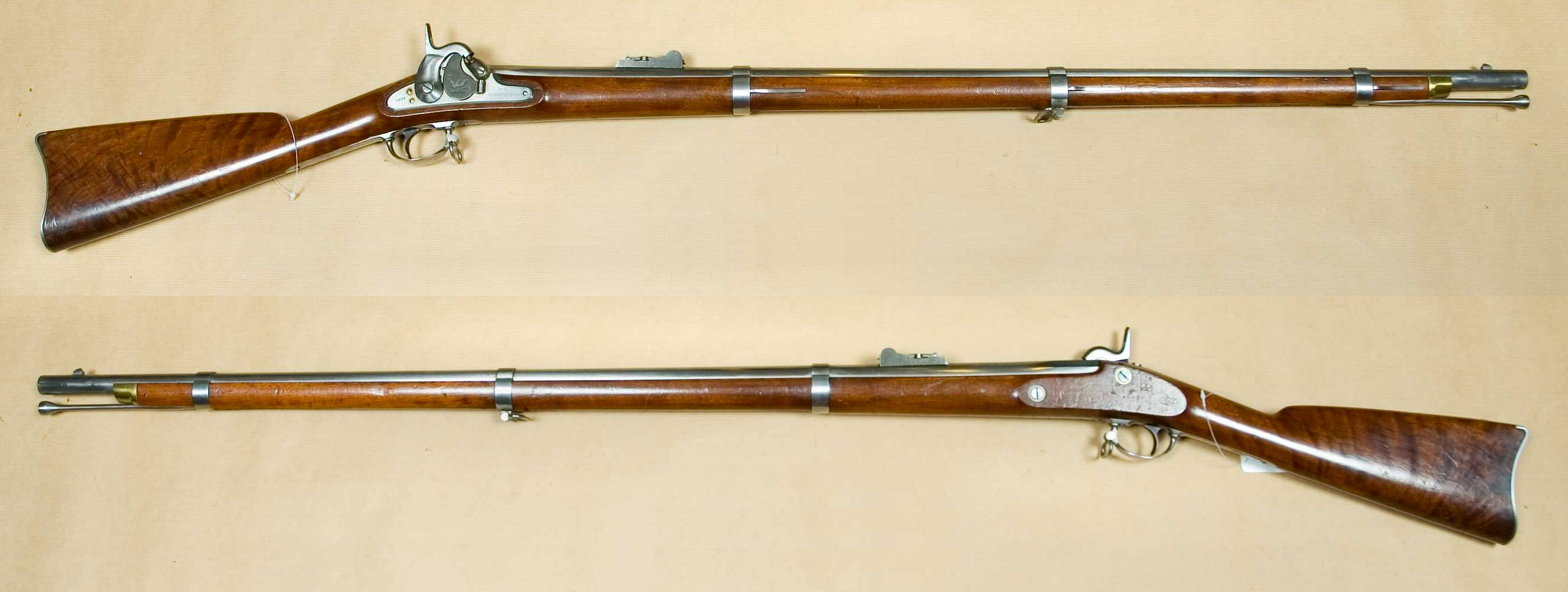 Springfield Model 1855 rifled musket for Minié ball. From the collections of Armémuseum (Swedish Army Museum), Stockholm, Sweden.